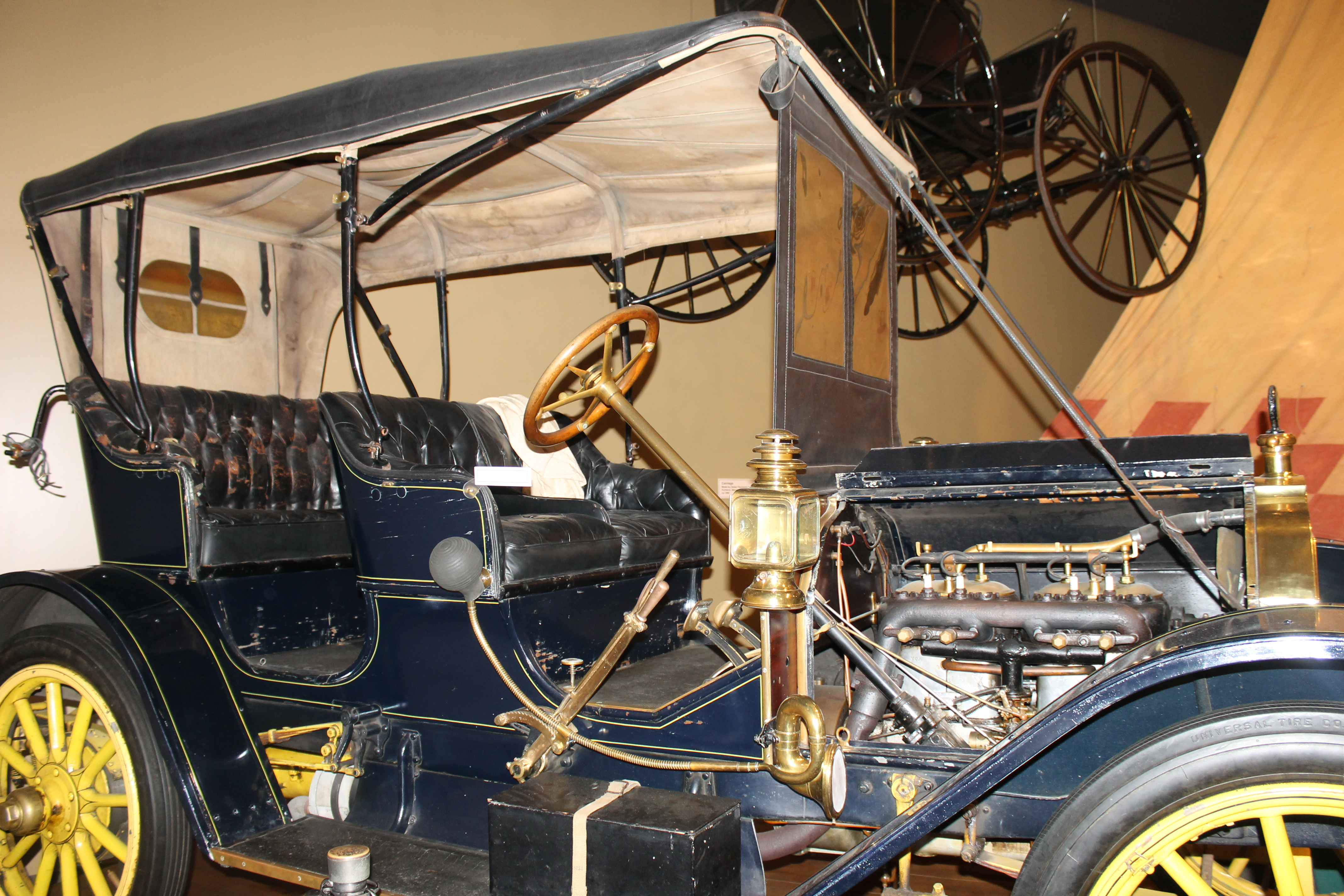 I took photo with Canon camera of Burrowes Model E. Tourabout (1908) at Maine State Museum in Augusta.